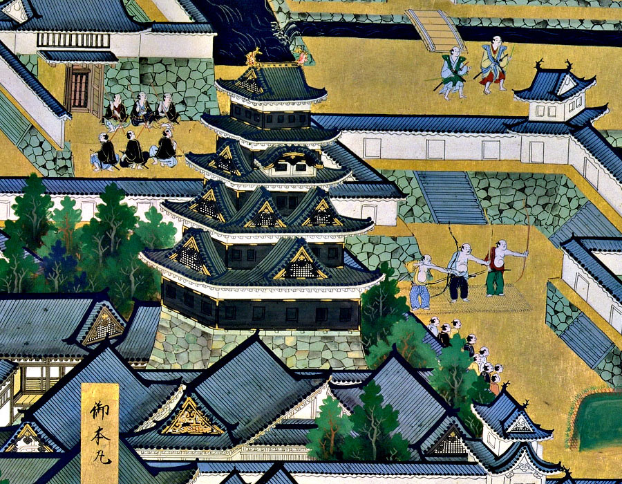 Upper middle of first panel, left screen. Central enciente of Edo Castle, Castle Tower, Bairinzaka, Hirakawaguchi Gate. Edo Castle tower (upper middle of first panel, left screen). The Edo Castle tower looms large in the left screen as if to accentuate Iemitsu's grand enterprises. This tower was the third to be constructed for Edo Castle. It was completed in 1638 (Kan'ei 15). Its height from the base is over 60 meters. During the great Meireki fire of 1657 (Meireki 3), however, the tower was destroyed and never rebuilt again. "View of Edo" (Edo zu) pair of six-panel folding screens (17th century).